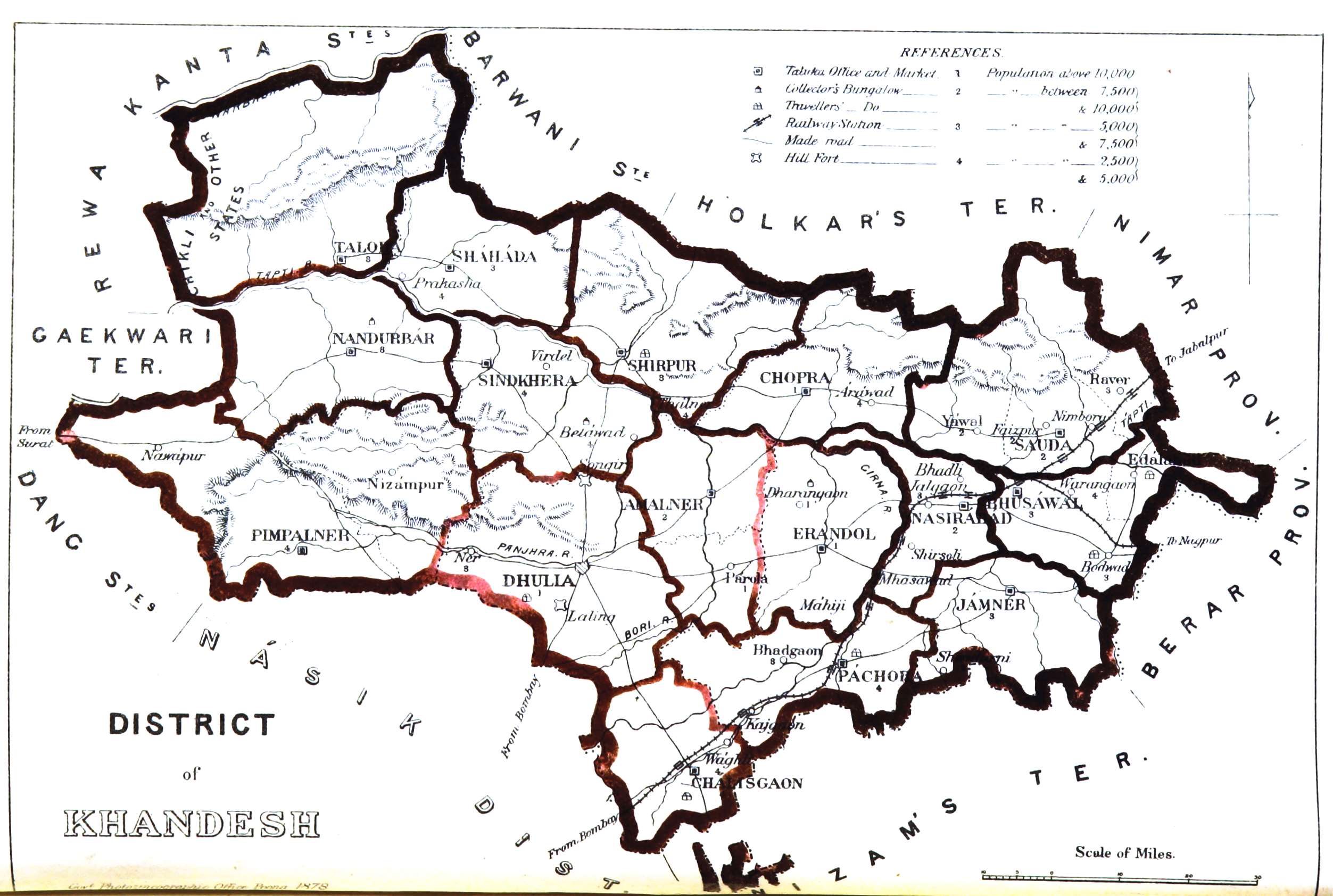 Map of Khandeish